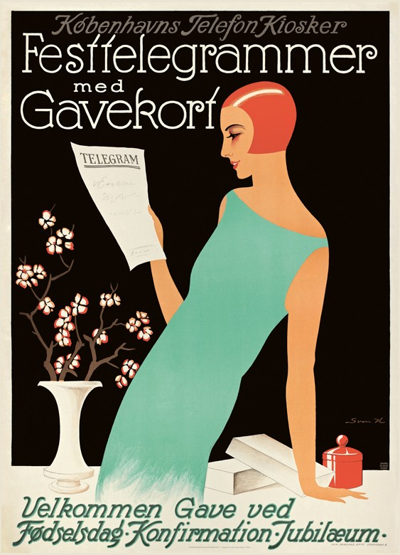 An advertisement poster for greetings telegrams delivered from A/S Københavns Telefonkiosker by way of bicycle messenger.